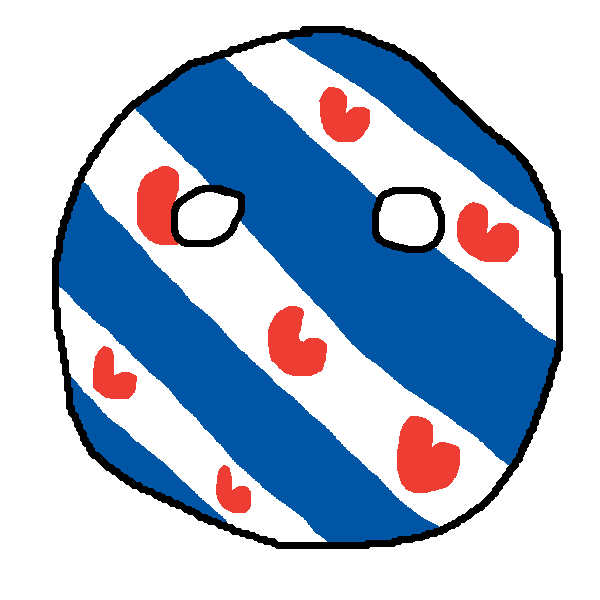 Polandball representation of Friesland